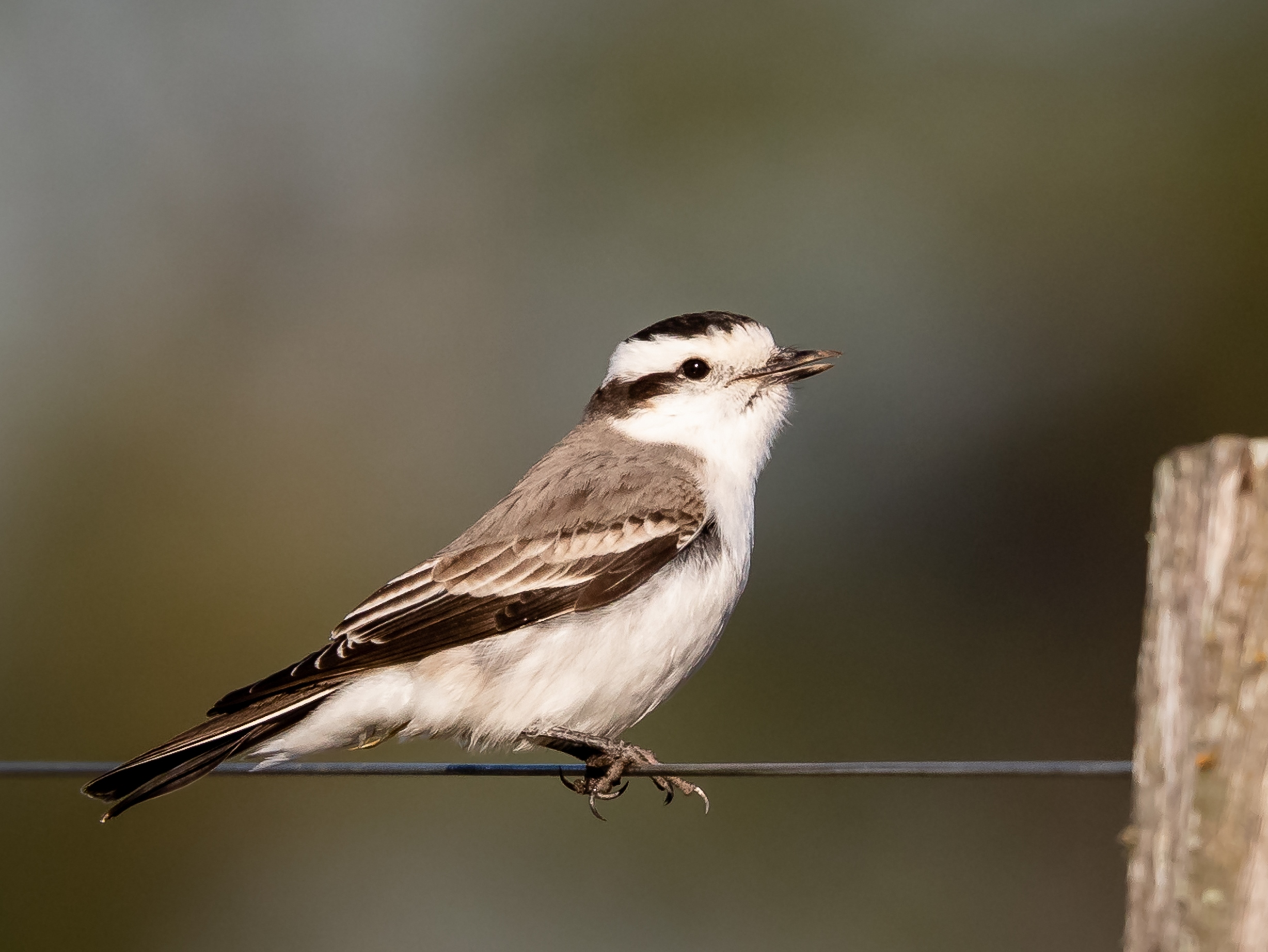 Xolmis coronatus - Black-crowned Monjita; San Javier, Río Negro, Uruguay